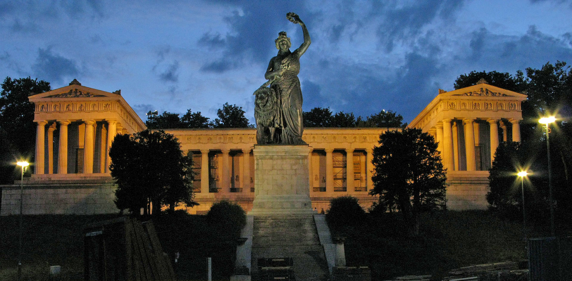 The Bavaria and the Ruhmeshalle in Munich (district: Schwanthalerhöhe - also called: Westend) at the Theresienwiese at night.